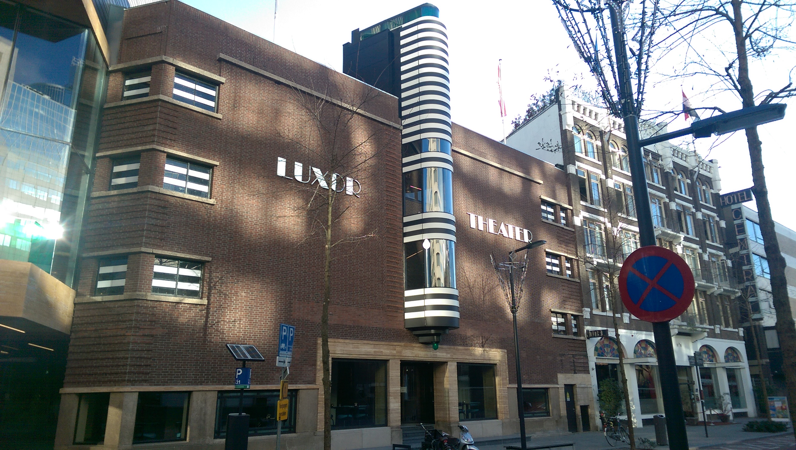 The old Luxor Theater in Rotterdam, the Netherlands. After extensive restorations, the facade has been partly brought back to its original shape and design. The black paint that covered the facades has been removed, the windows have been restored, the white fascia on the ground floor has been removed and the tower has been brought back in a modernist style.